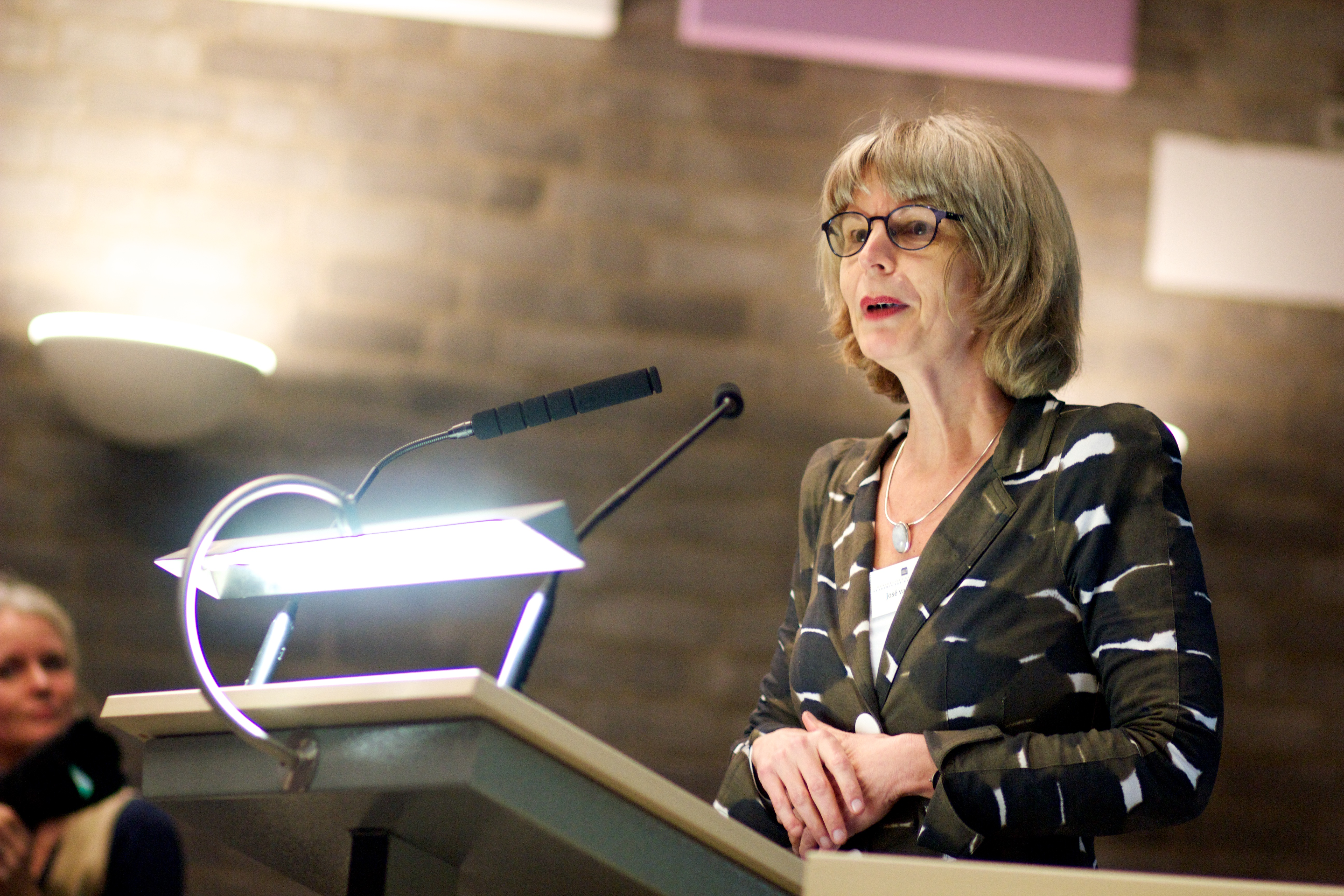 KNAW symposium "Wikipedia as a research tool"